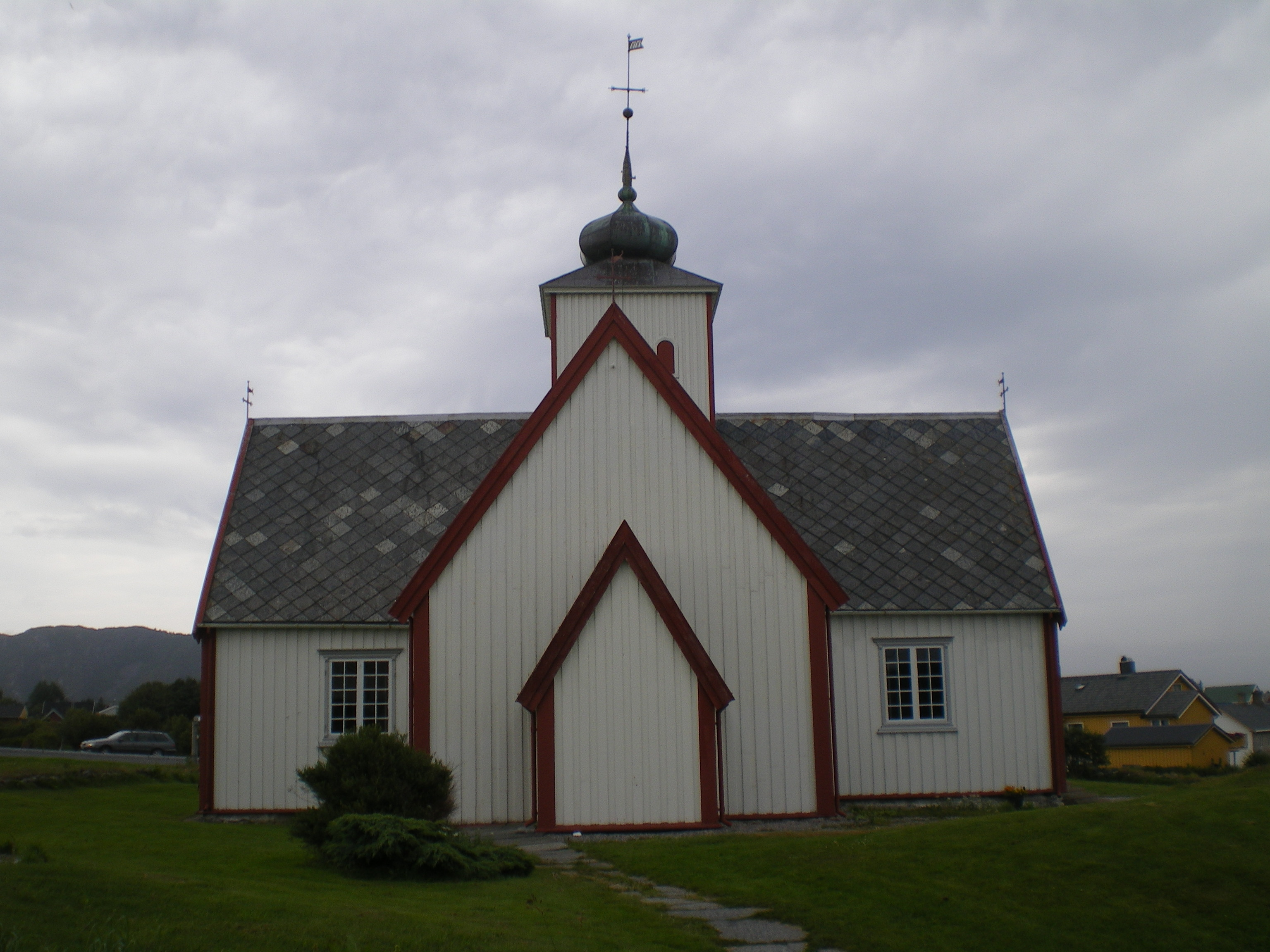 The church in Bud, Norway, county of Møre og Romsdal.